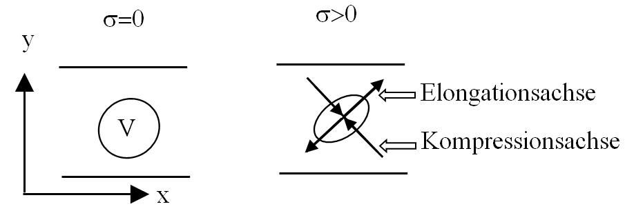 Deformation Density Fluctuation